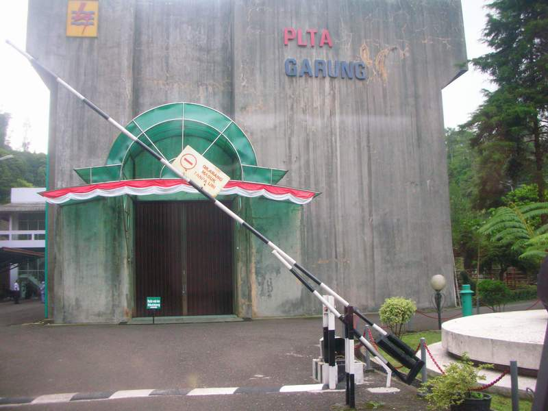 Garung Hidroelectric Power Station in Wonosobo Regency, Central Java, Indonesia